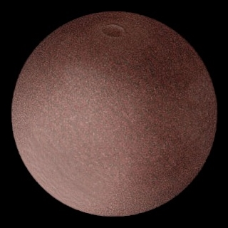 An artist's impression of (136472) Makemake (previously known as 2005 FY9)